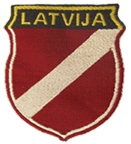 Category:Coat of arms images